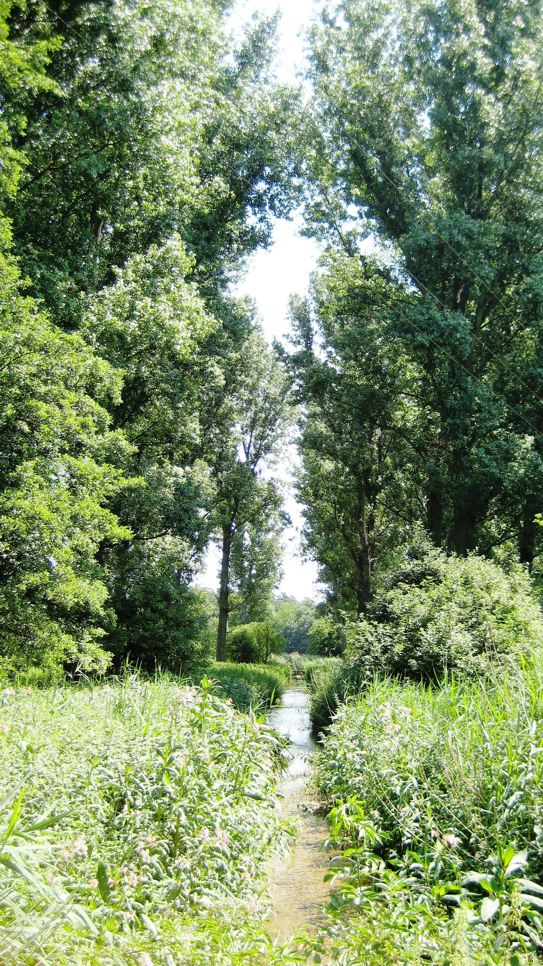 Germany, Hesse, City of Heusenstamm, course of the Biberbach (creek/brook) near former monastry Patershausen